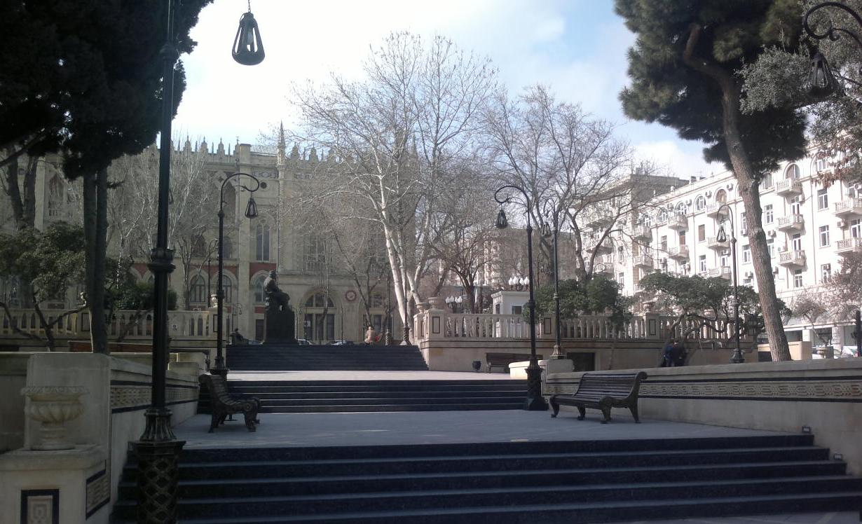 Sabir Garden in Baku